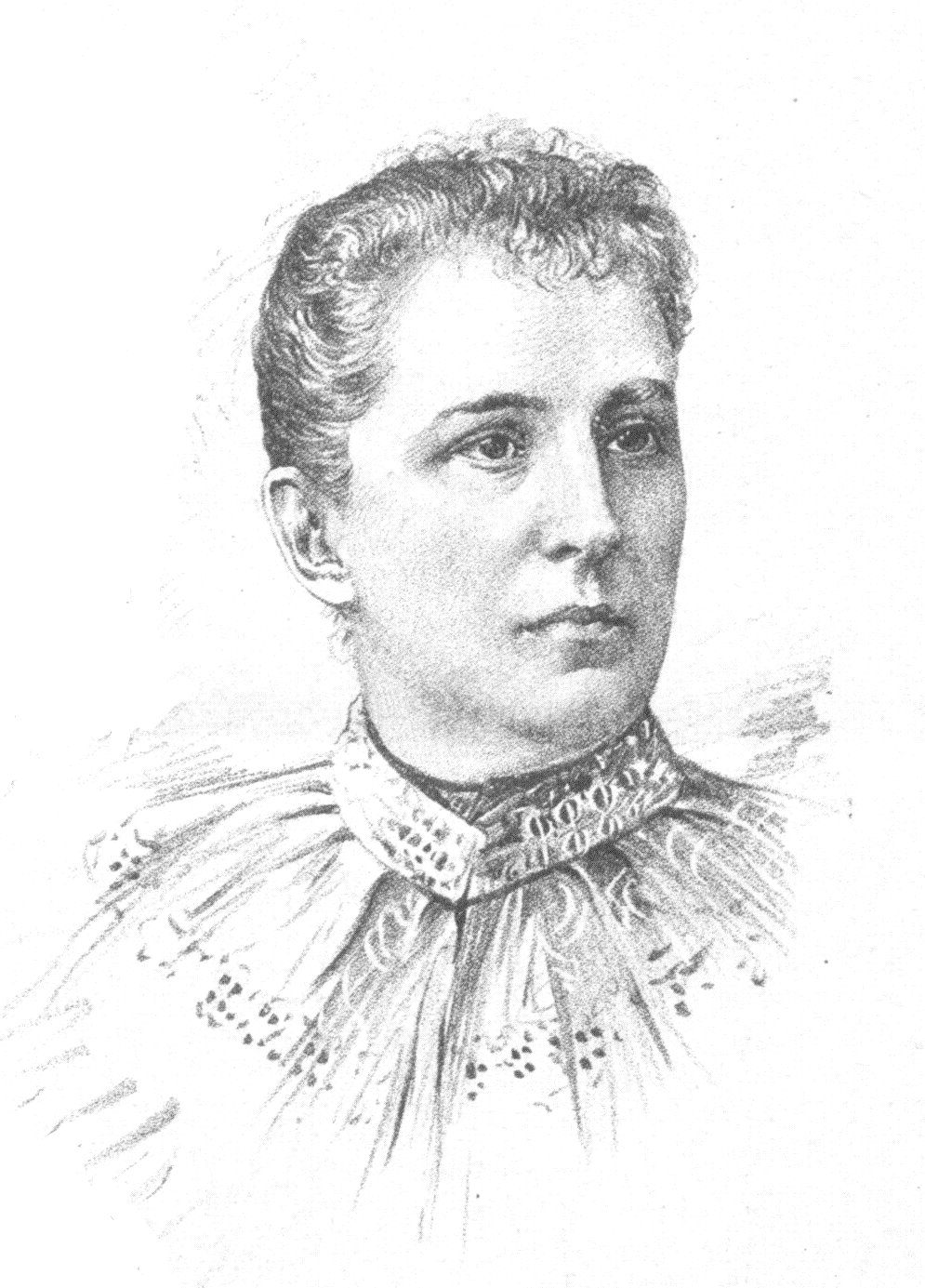 Portrait of Caroline Furlani (1847-??), Austrian actress.